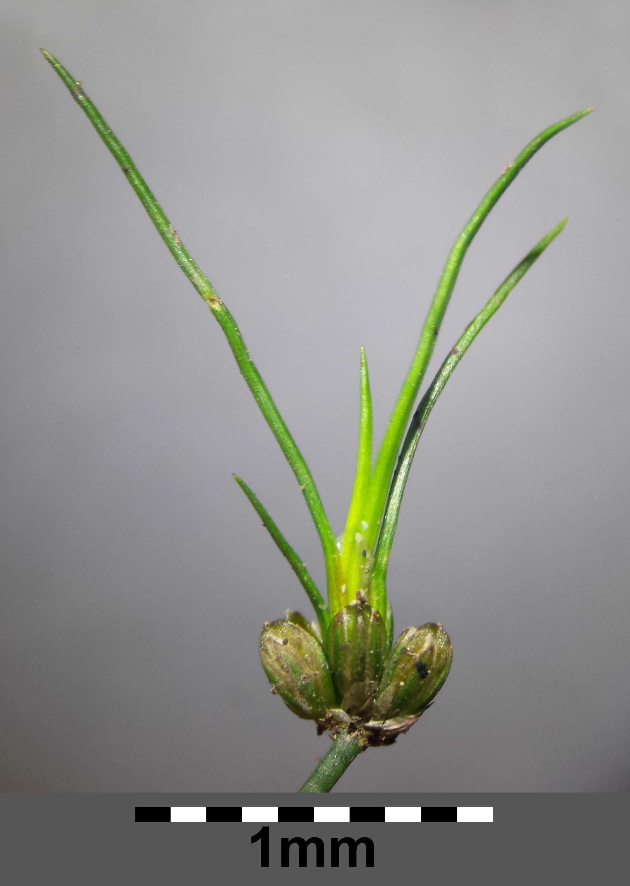 Inflorescence with sprouts Taxonym: Juncus bulbosus ss Fischer et al. EfÖLS 2008 ISBN 978-3-85474-187-9 Location: pond to the south of Pyhrabruck, district Gmünd, Lower Austria - ca. 550 m a.s.l. Habitat: ground of a pond